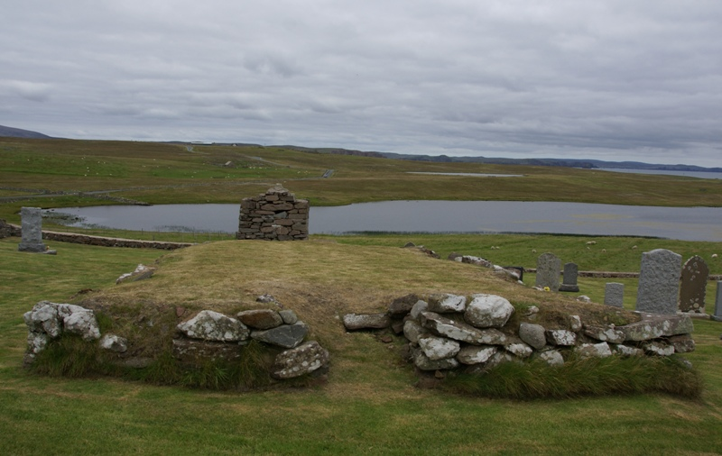 Cross Kirk, Eshaness, Mainland, Shetland, Scotland